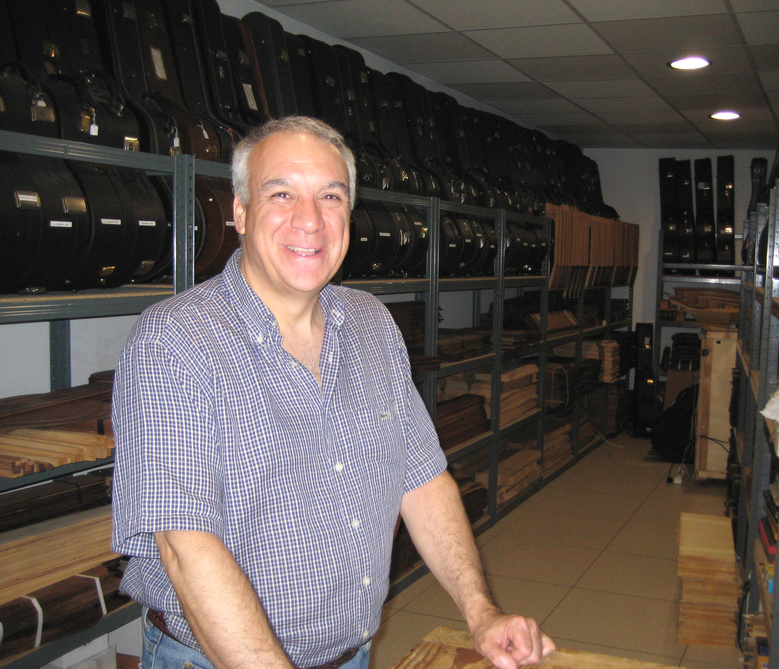 Paulino Bernabe II in his workshop in Madrid (Spain).